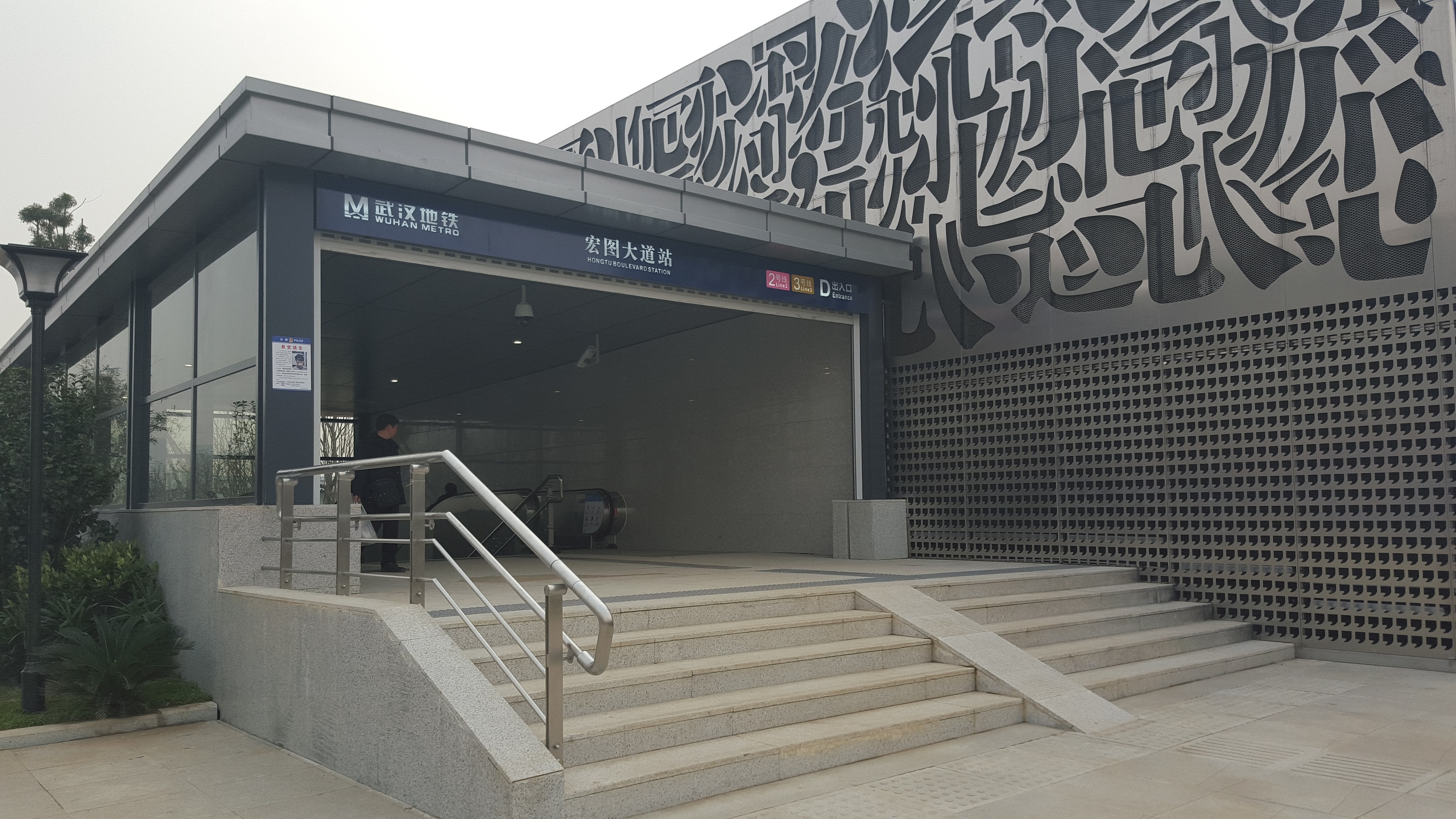 Entrance D of Hongtu Boulevard Station, Wuhan Metro